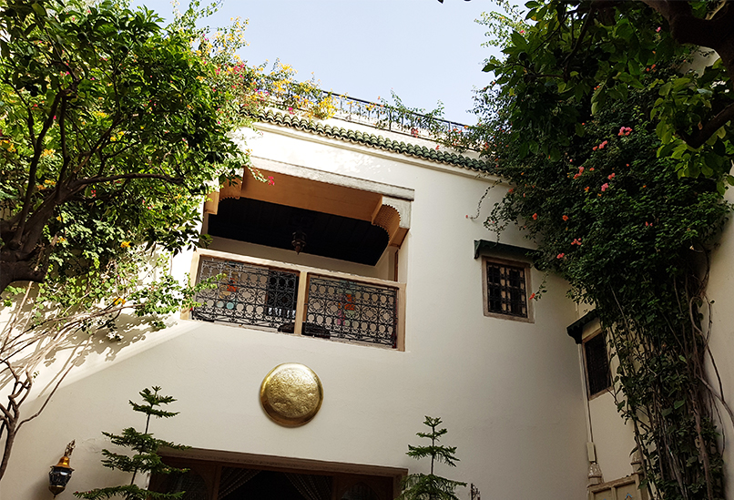 Remember To Rise artwork of Olufeko received its frame casing in Marrakech at Riad Fleur d'Orient in the Bab Doukkala district.